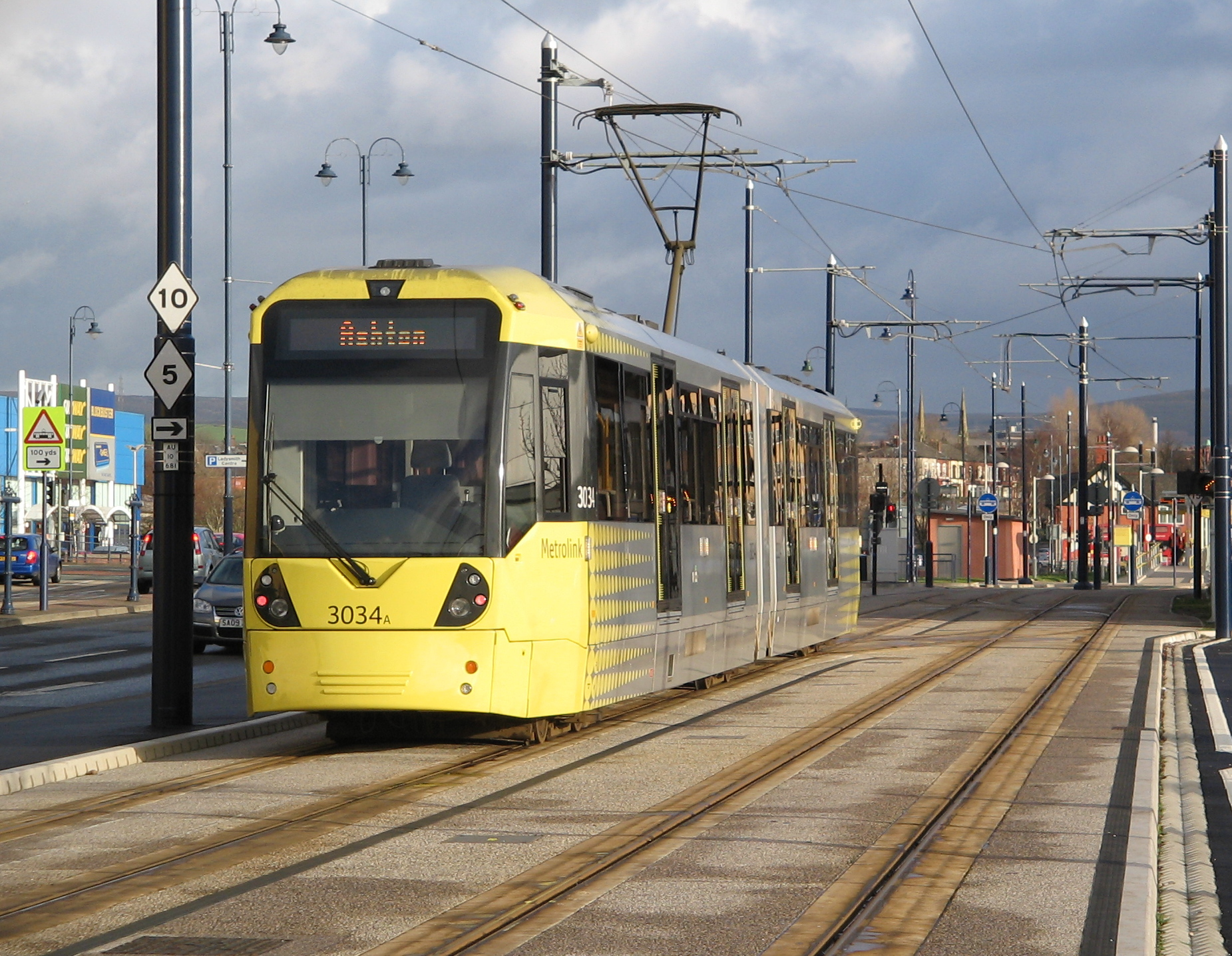 M5000 tram in Ashton-under-Lyne.